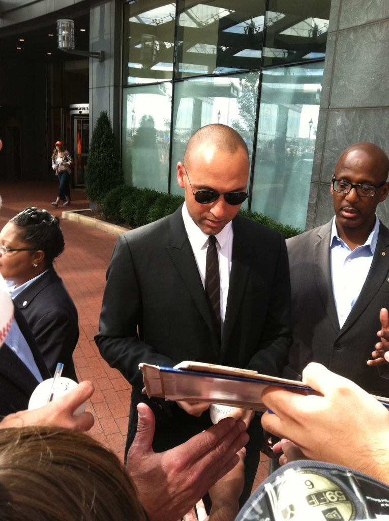 Jeter meeting fans outside of team's hotel in final Baltimore appearance.